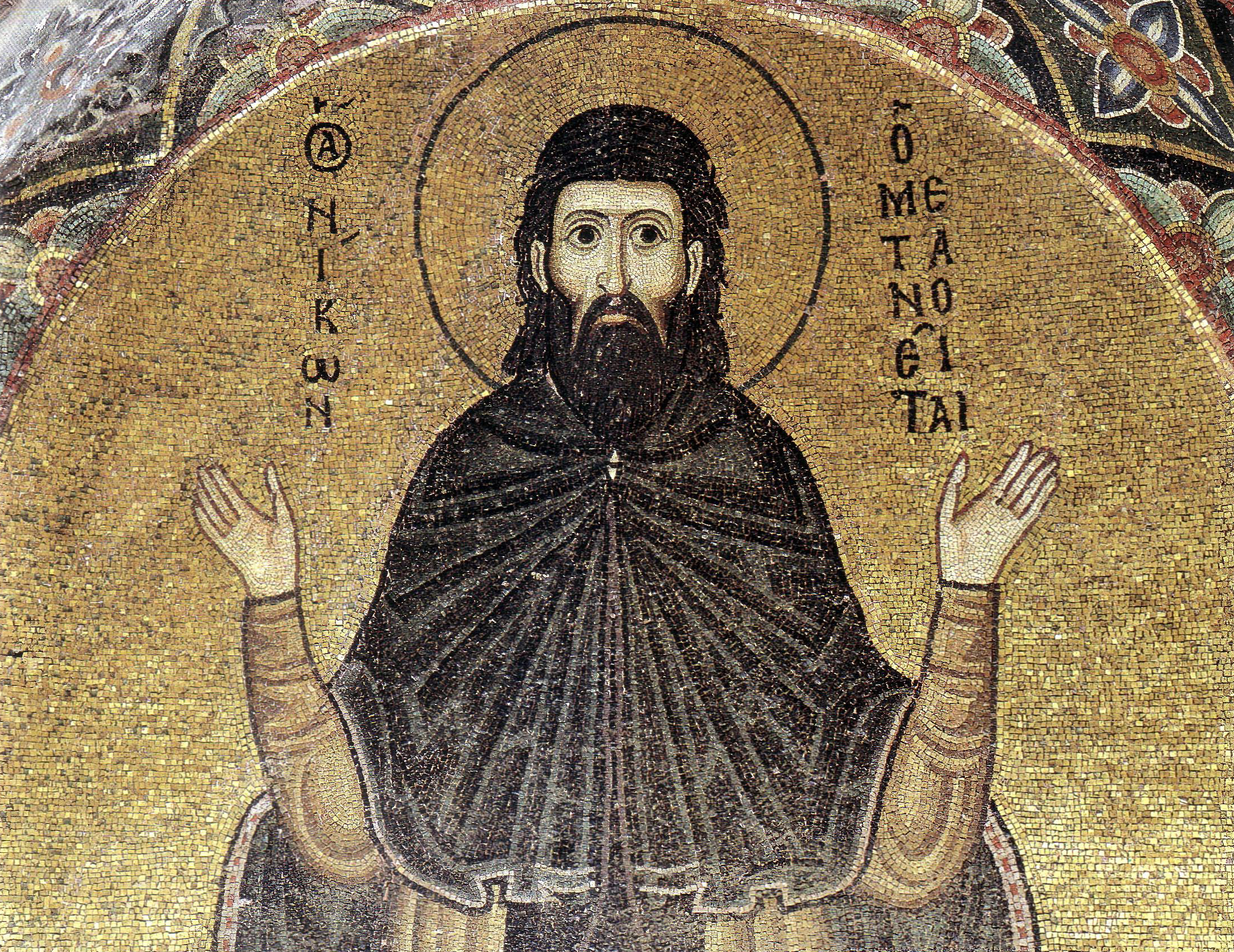 Hosios Loukas Monastery, Boeotia, Greece